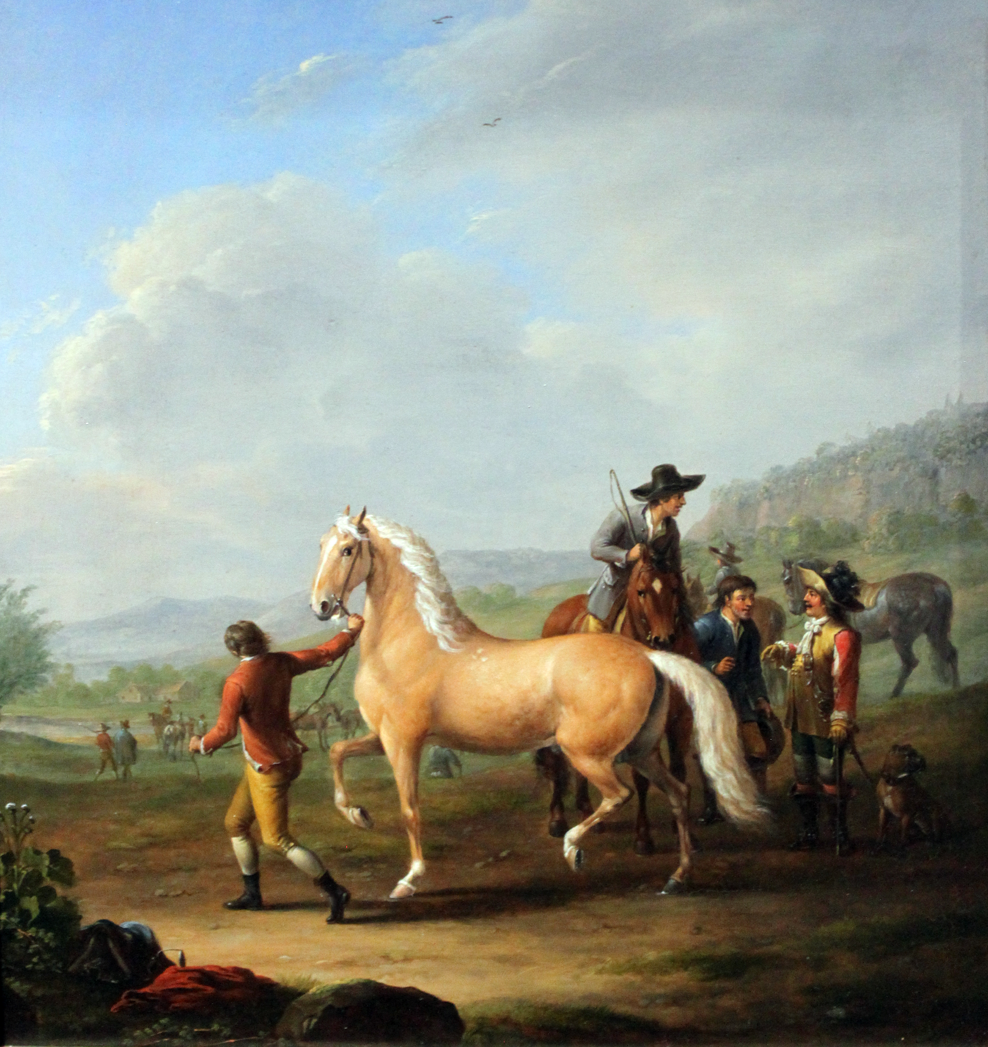 Horse Market